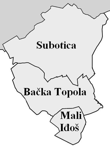 North Backa District map